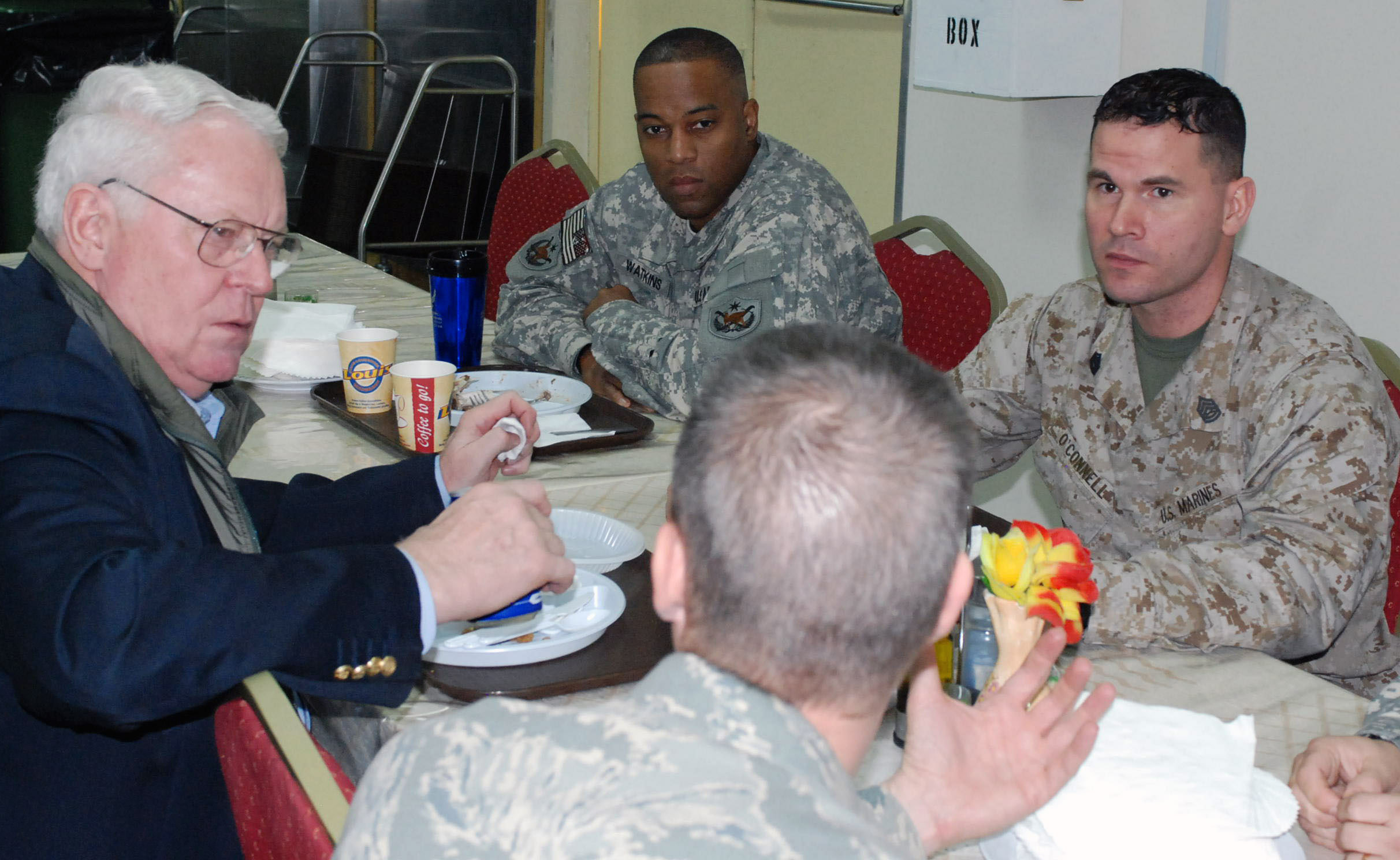 BAGHDAD (Jan. 3, 2008) Pennsylvania Congressman Joe Pitts visits with members of the Multi-National Security Transition Command Iraq. U.S. photo by U.S. Mass Communication Specialist 2nd Class Erica R. Gardner (Released)